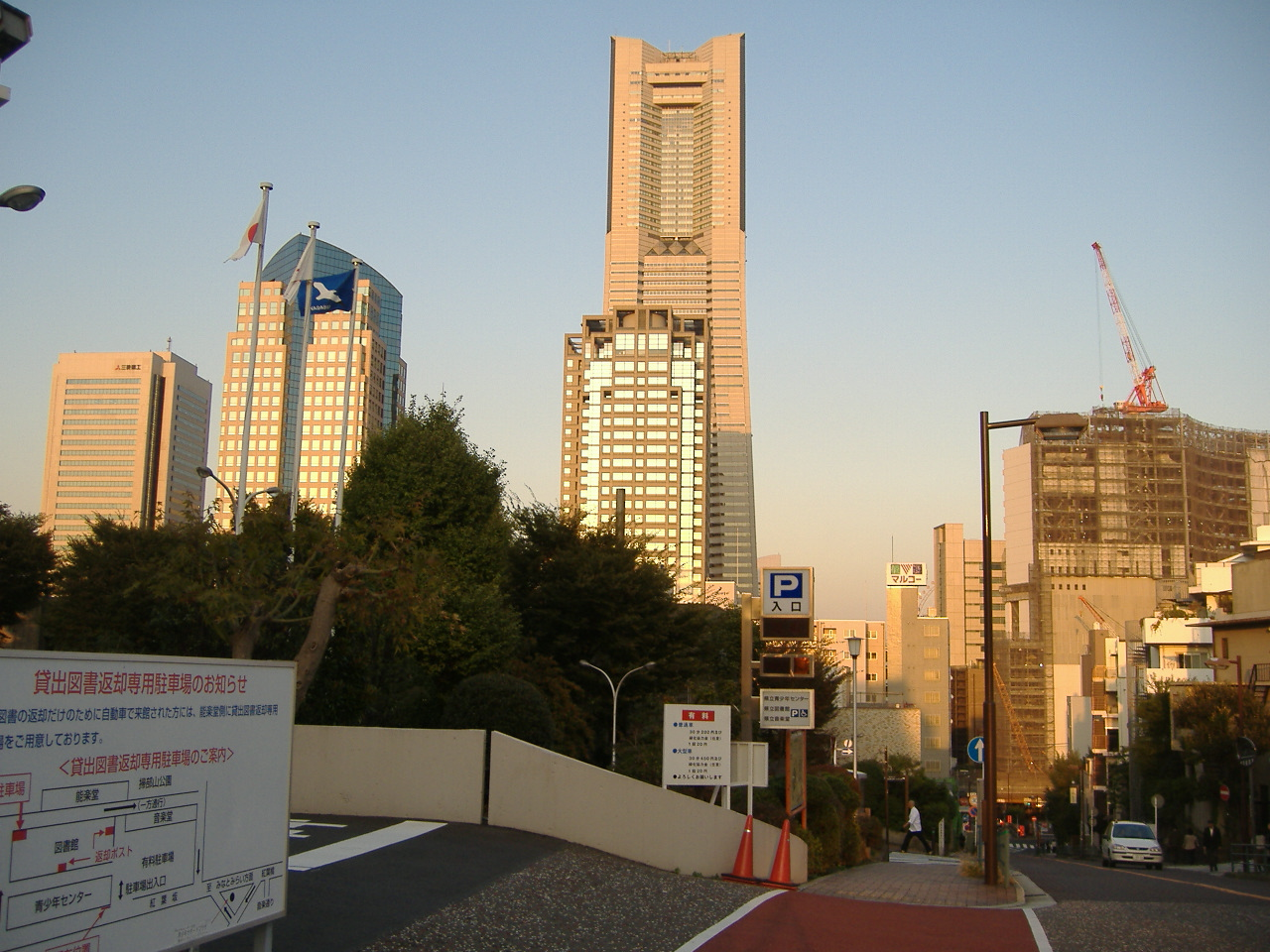 Yokohama Momijizaka (Yokohama, Japan)